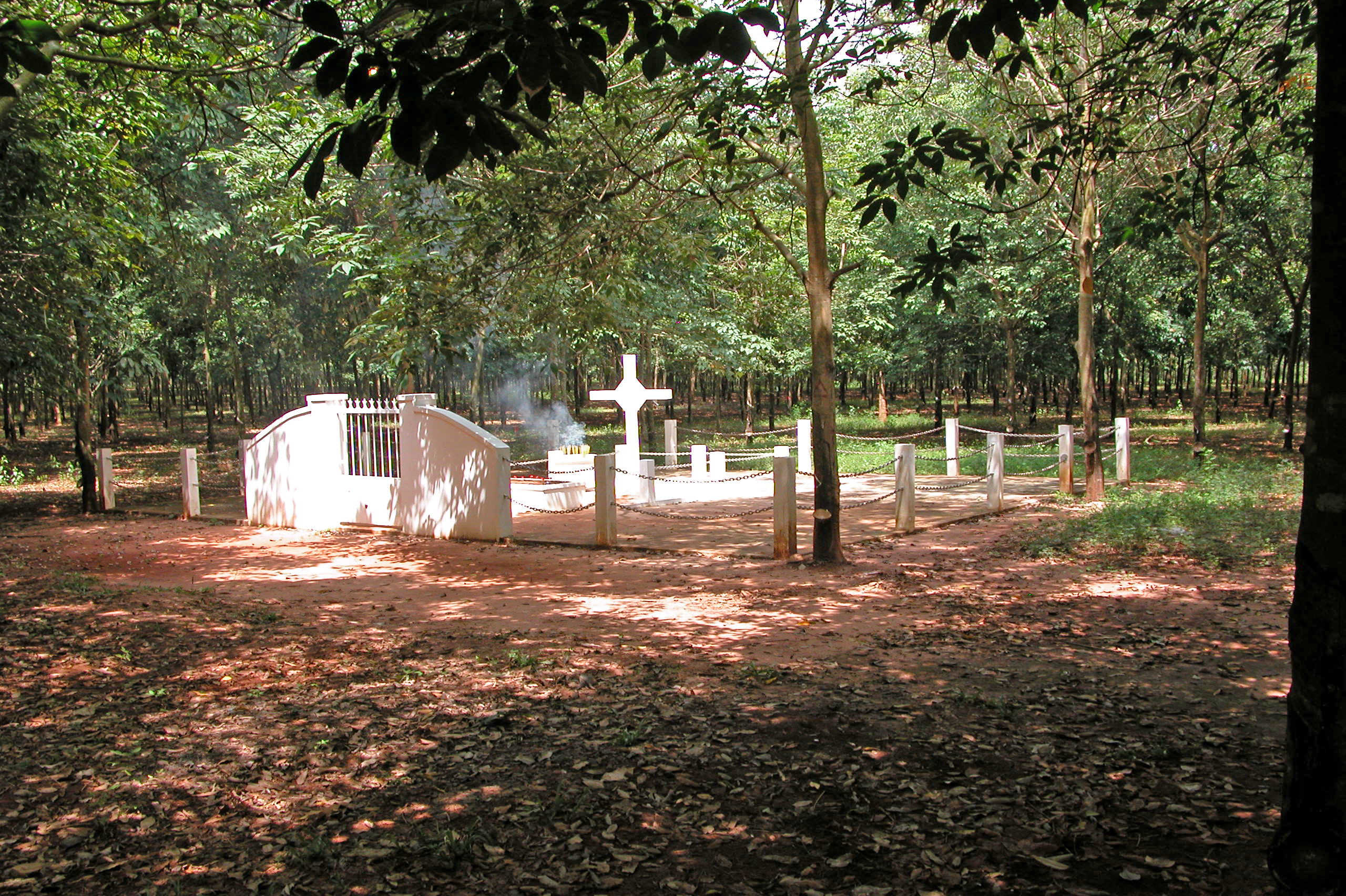 The Memorial Cross at the site of the Battle of Long Tan. November 2005.